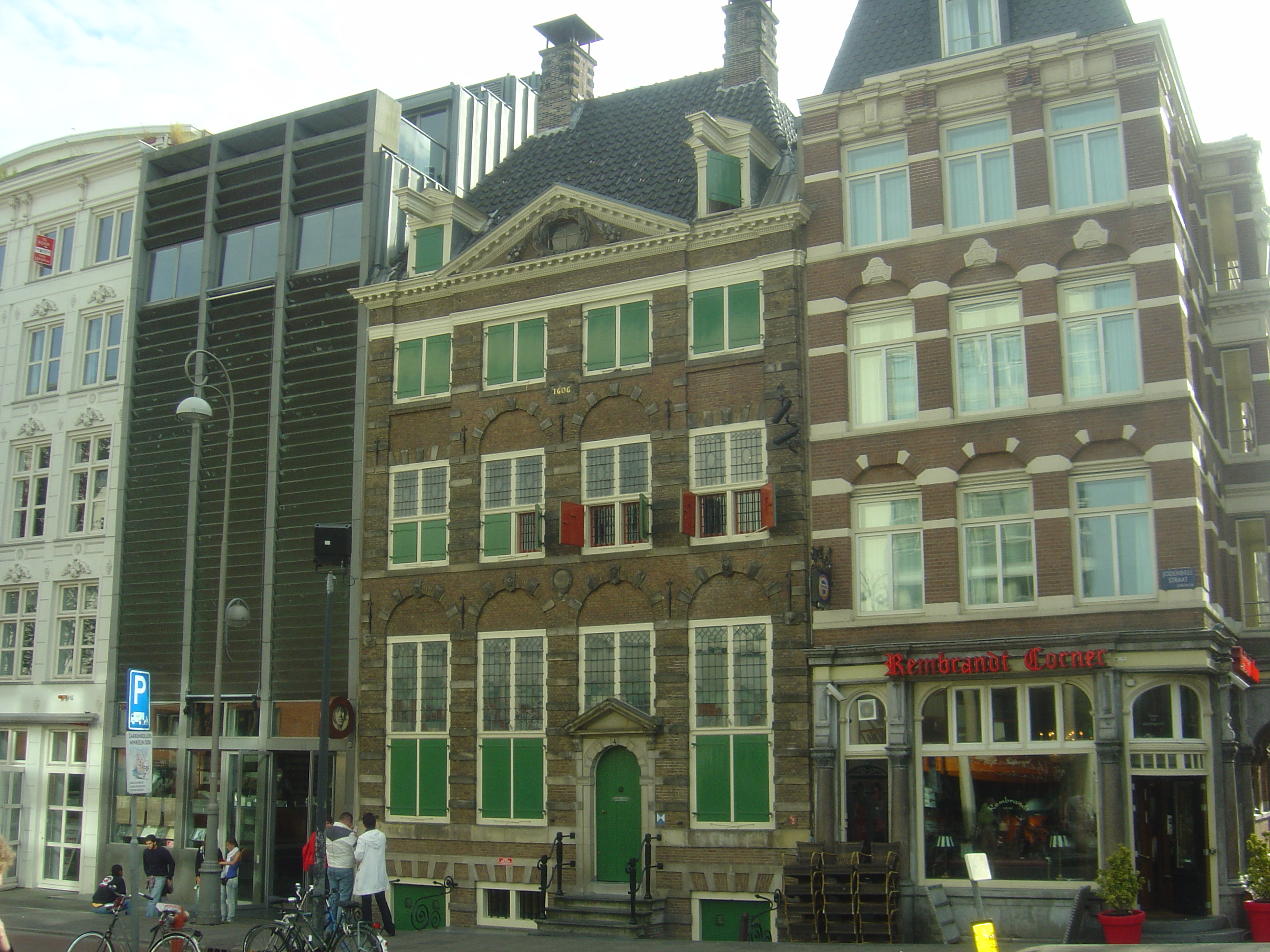 Rembrandt's house, Amsterdam